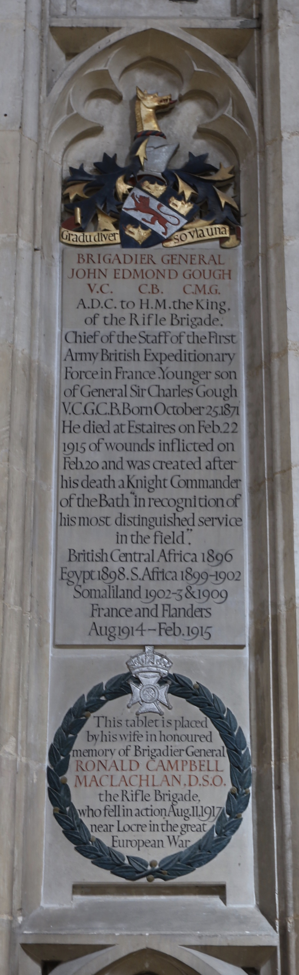 Brigadier General John Edmond Gough, V.C., C.B., C.M.G., A.D.C. to H.M. the King, of the Rifle Brigade, Chief of Staff of the First Army British Expeditionary Force in France. Younger son of General Sir Charles Gough, V.C., G.V.B., Born October 25 1871, He died at Estaires on Feb 22 1915 of wounds inflicted on Feb 20 and was created after his death a Knight Commander of the Bath in recognition of his most distinguished service. British Central Africa 1896 Egypt 1898 South Africa 1899-1902 Somaliland 1902-3 & 1909 France and Flanders Aug 1914 - Feb 1915